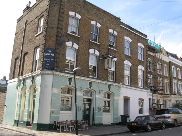 The Pineapple, 51 Leverton Street, NW5. I think that there is only one other pub in London called The Pineapple: 453041 (photo by Stephen Craven).